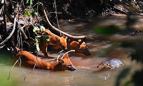 The giant Water monitor did not let the Dholes chase him away from the Sambar carcass. The Asian Wild dogs killed the deer the night before, and the monitor scavenged on the meat of the large Sambar deer. At present, the Dholes are the top predators of Khao Yai national park. Tigers are (nearly?) extirpated from the forests of Khao Yai, so it's up to the dogs to keep the deer, wild boar, and even the gaur population healthy.